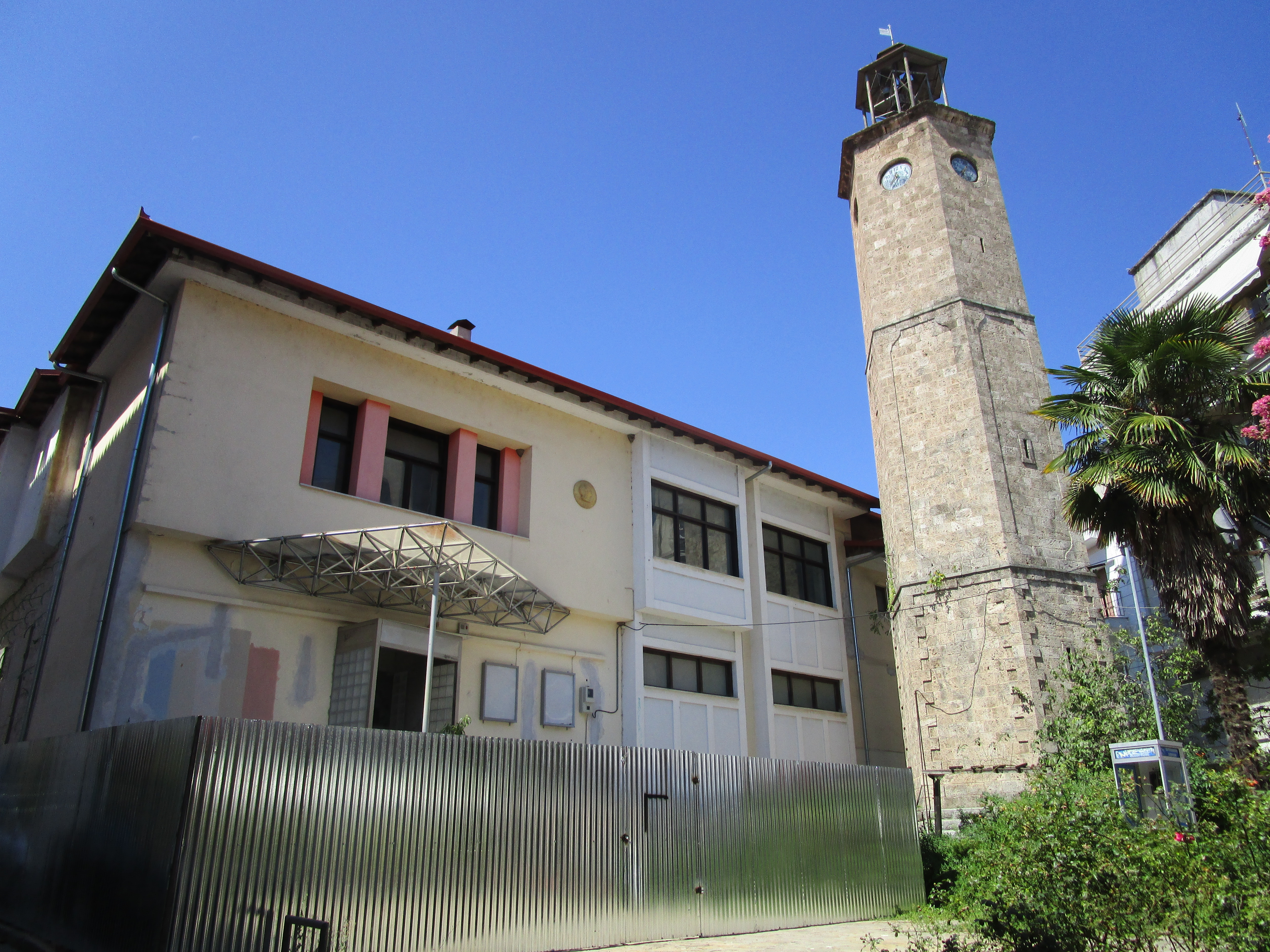 Hunkyar cami and clocktower, Voden